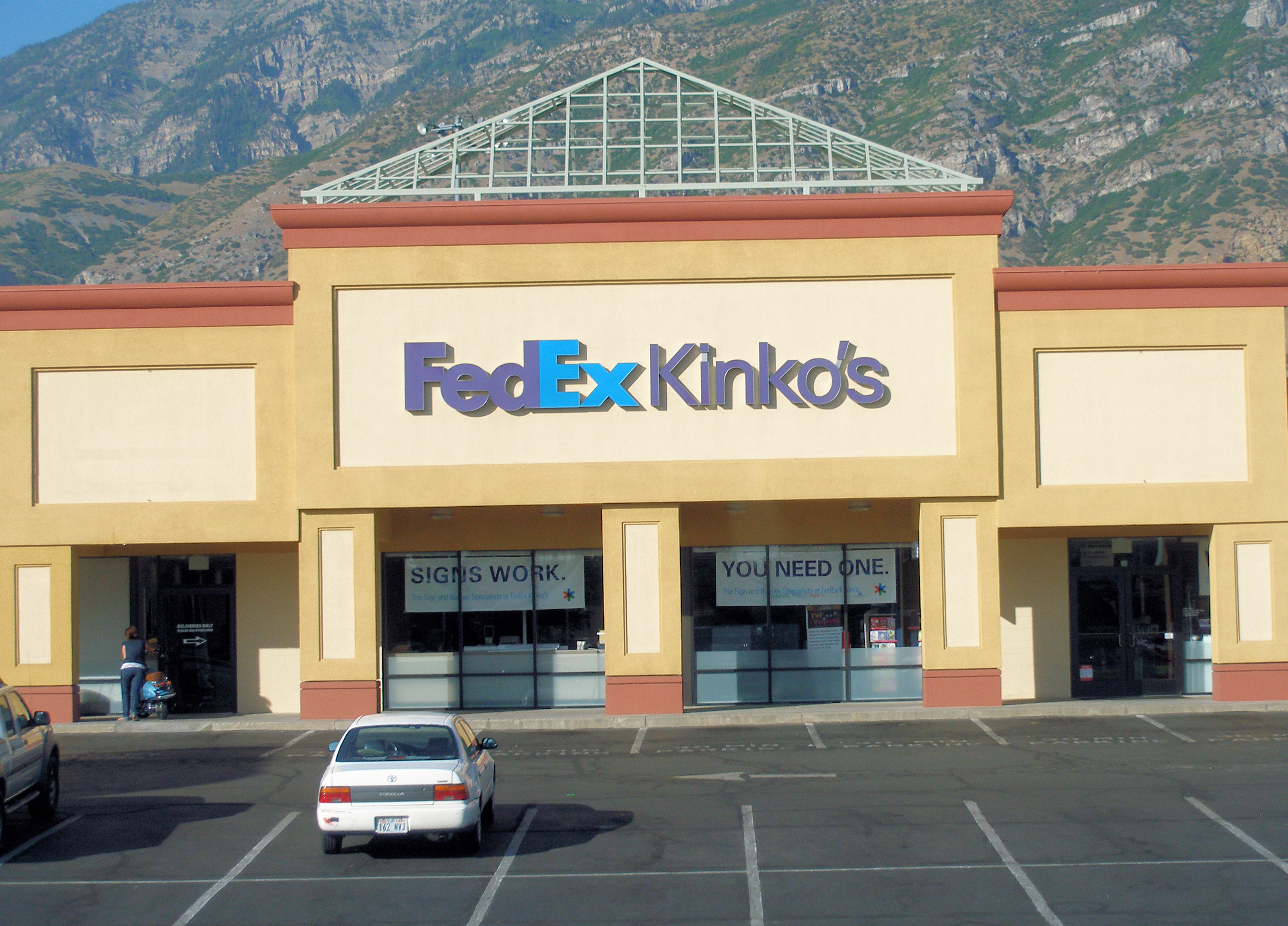 A typical FedEx Kinko's store, located in Provo. Photographed by user Coolcaesar on July 22, 2008.